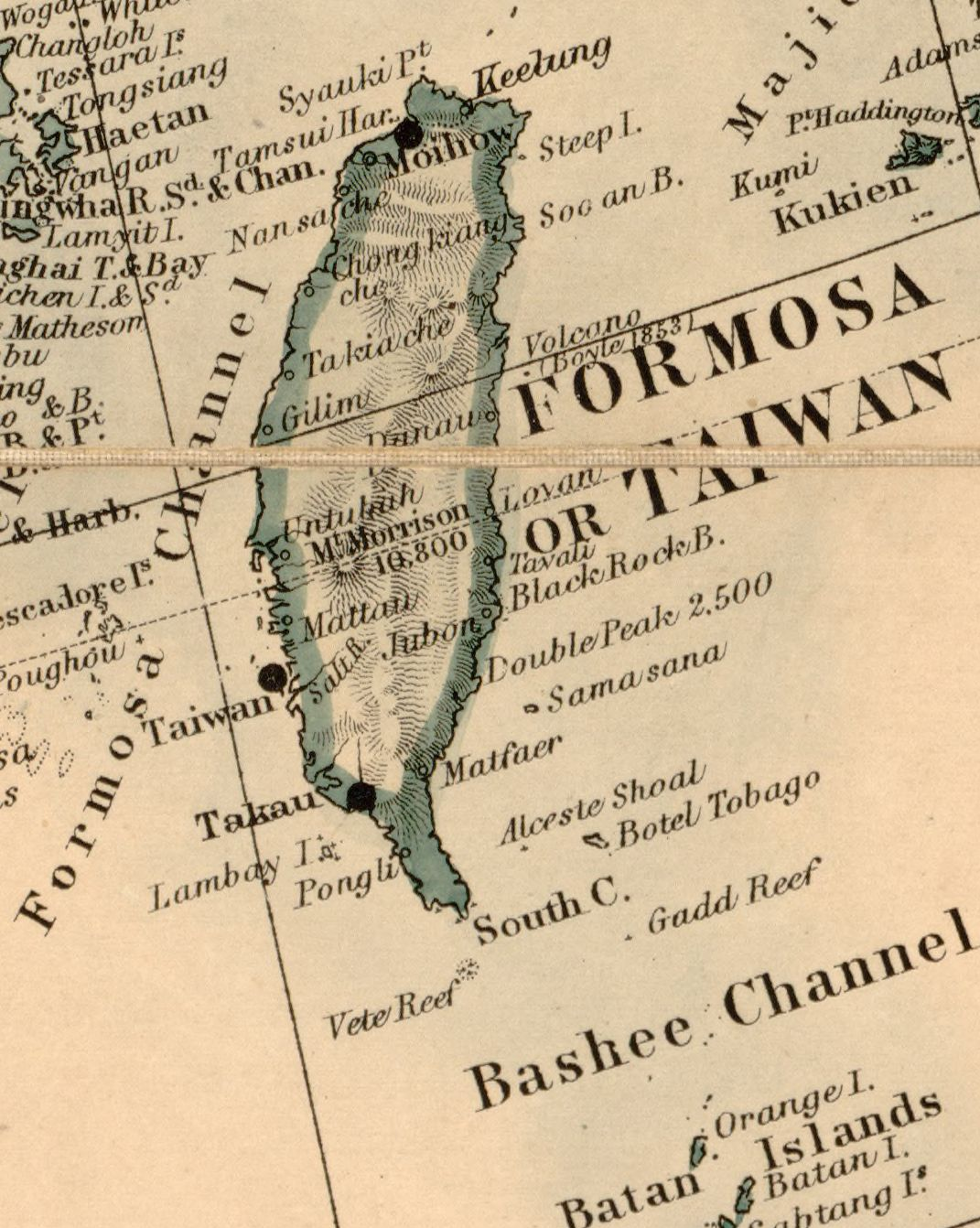 Back cover of publishers' list on verso. Front cover missing. "Stanford's Geog. Estab, London." Annotated in pencil in pink. "409410 * '31." LC copy sectioned to 36 sheets, and mounted on cloth backing. Available also through the Library of Congress Web site as a raster image.